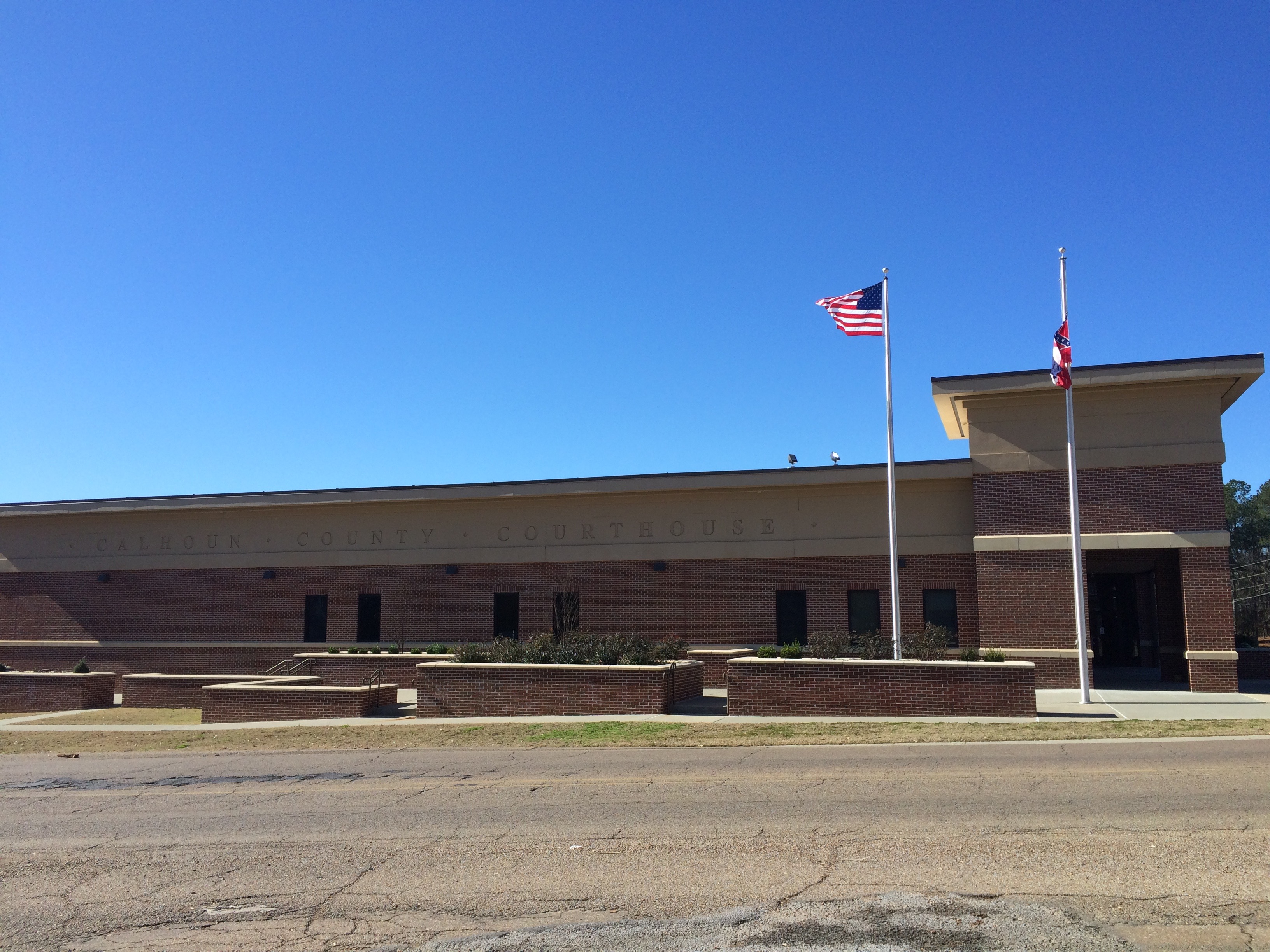 Photo of the Calhoun County, Mississippi courthouse at Pittsboro, Mississippi, taken in January 2016.